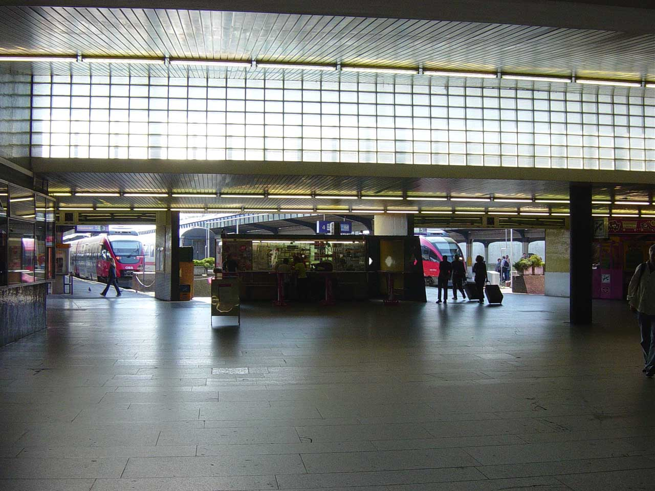 To the plaftorms of Vienna Südbahnhof